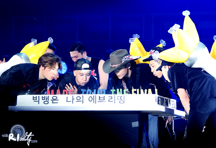 BIGBANG Made Tour Final in Seoul, March 6, 2016